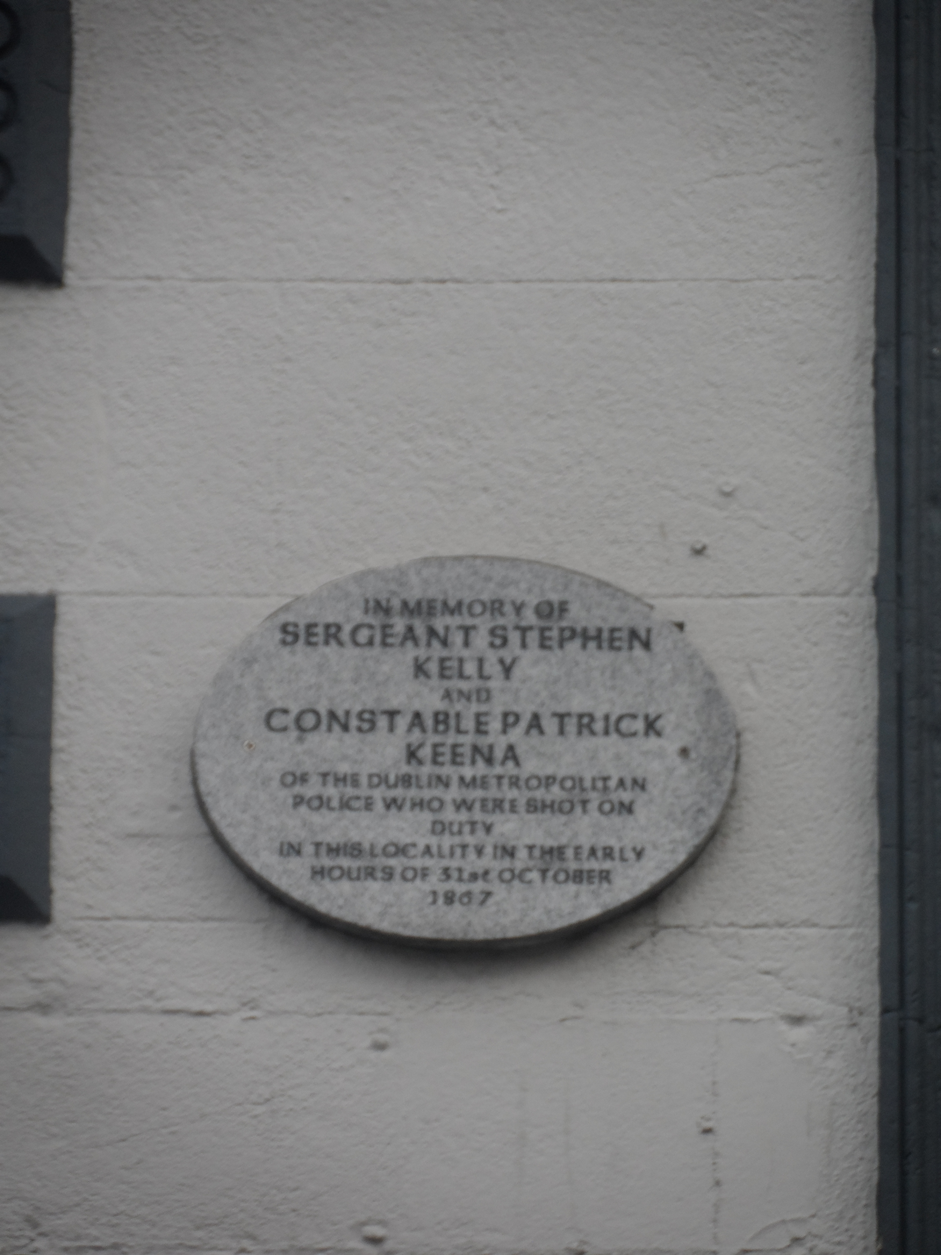 DMP memorial plaque